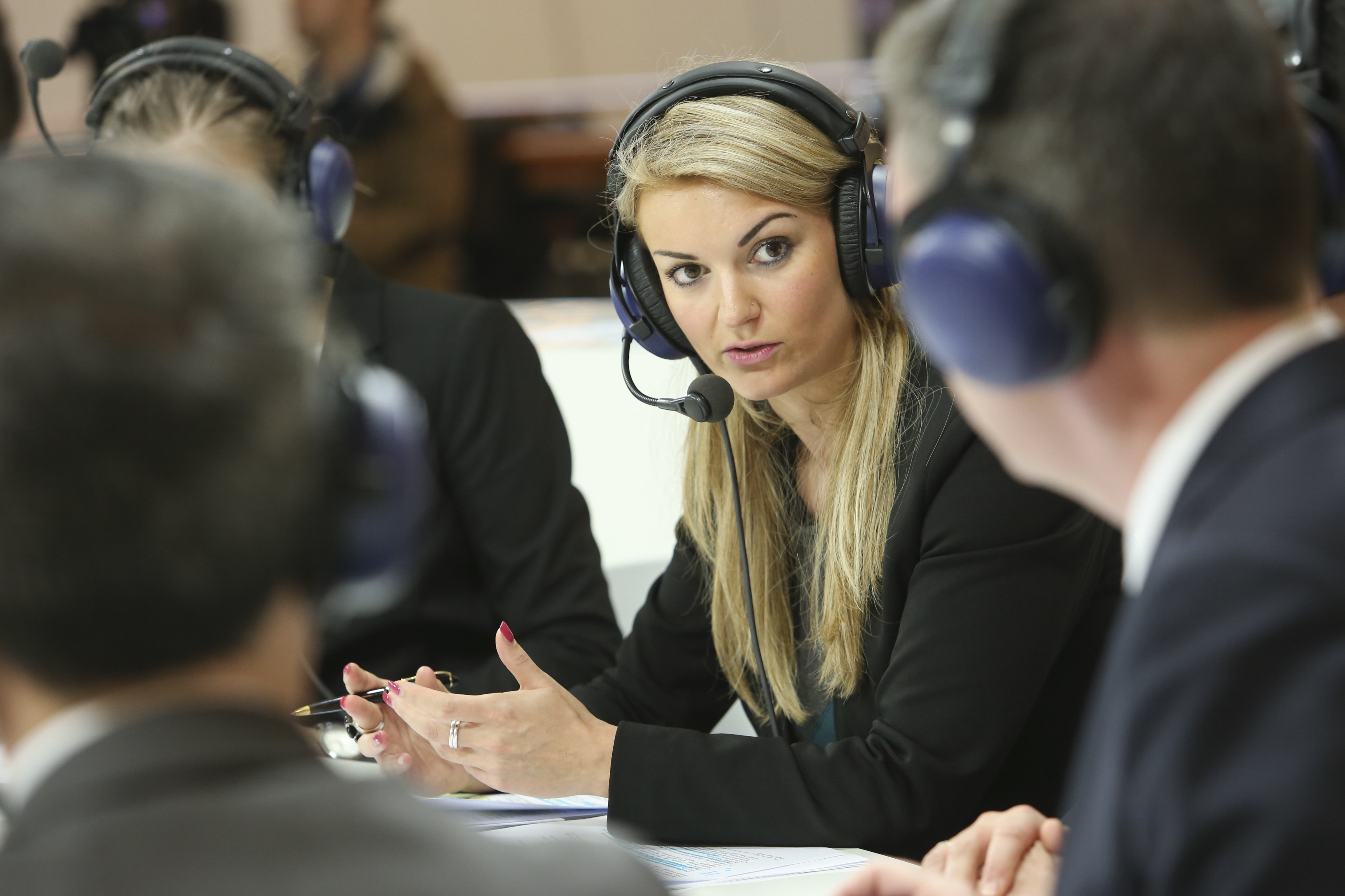 Mina Andreeva, Spokesperson of the EU Commission, at Euranet Plus discussing with (among others), Catherine Stihler (MEP, UK, S&D), Victor Negrescu (MEP, Romania, S&D), Sabine Verheyen (MEP, Germany, EPP) and Joe McNamee, Executive Director EDRi